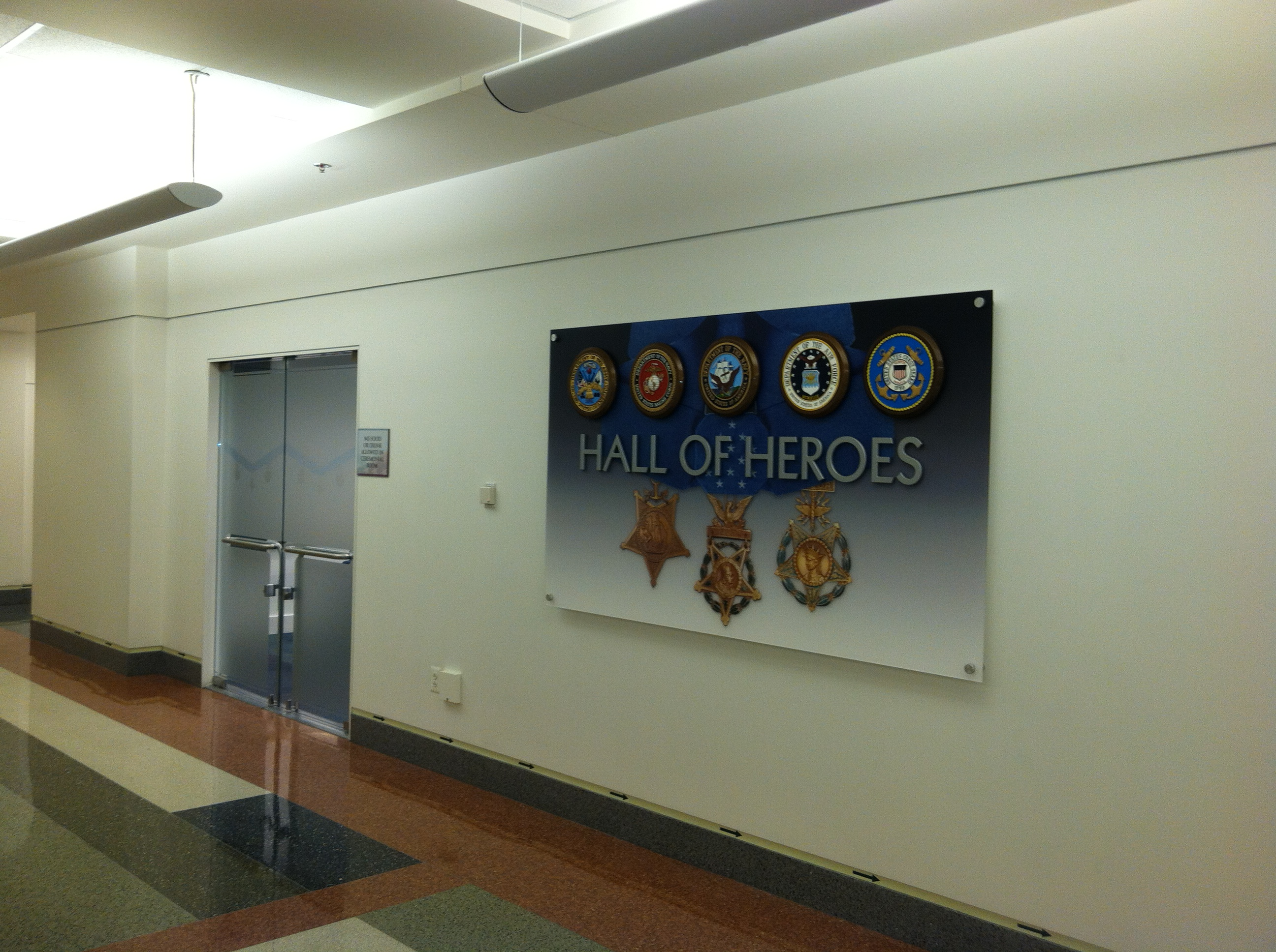 Entrance to the Hall of Heroes, located on the Pentagon's main concourse